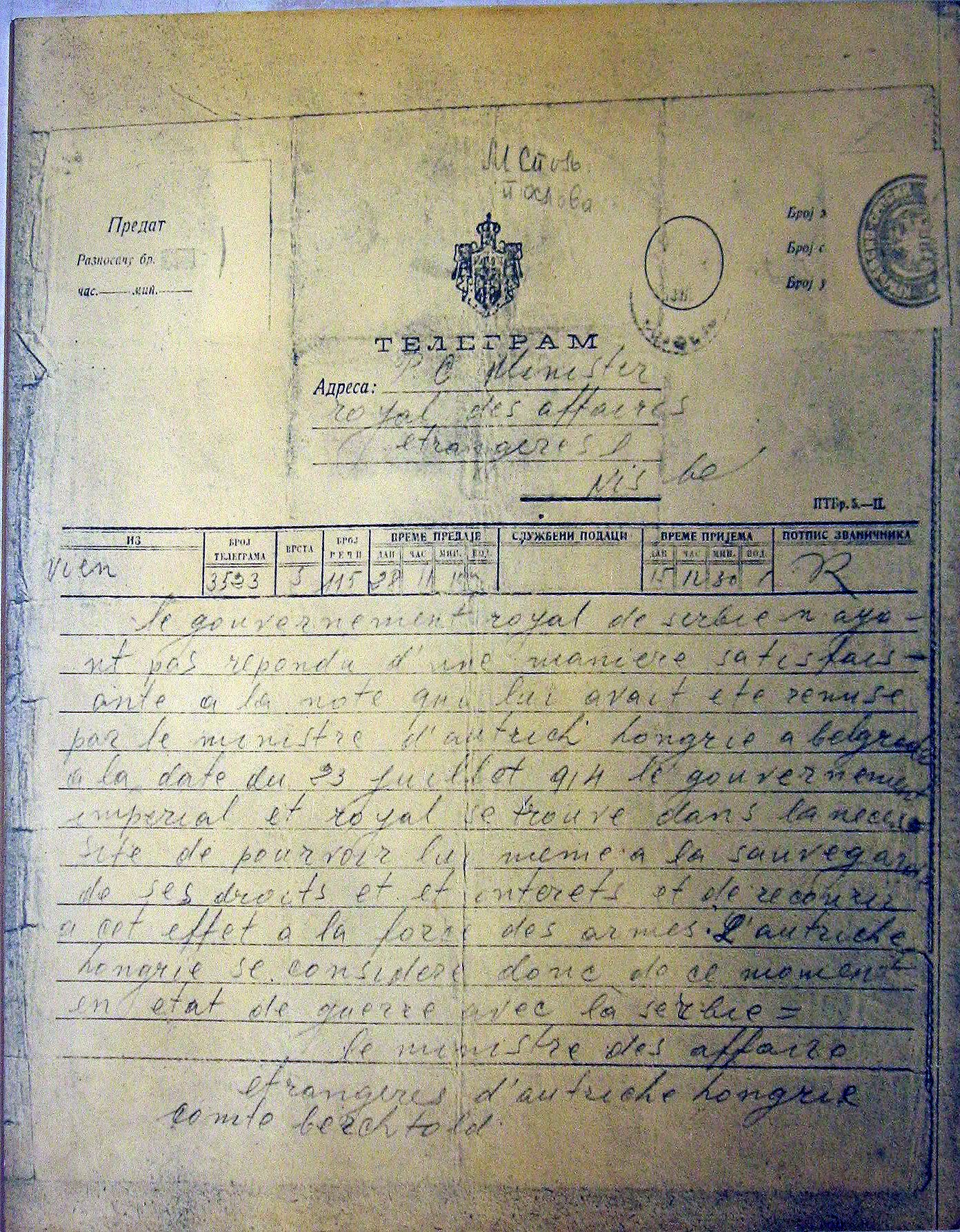 Austro-Hungarian government's telegram to the government of Serbia on 28 July 1914th Declaration of war.“The royal government of Serbia having not satisfactorily answered the notice that had been handed to it by the minister of Austro-Hungary in Belgrade on the 23rd of July 1914 the imperial and royal government finds itself compelled to provide itself for its rights and interest's protection and to resort therefore to force of arms. Therefore, Austro-Hungary considers itself henceforth in state of war against Serbia. The minister of foreign affairs of Austro-Hungary Count Berchtold”